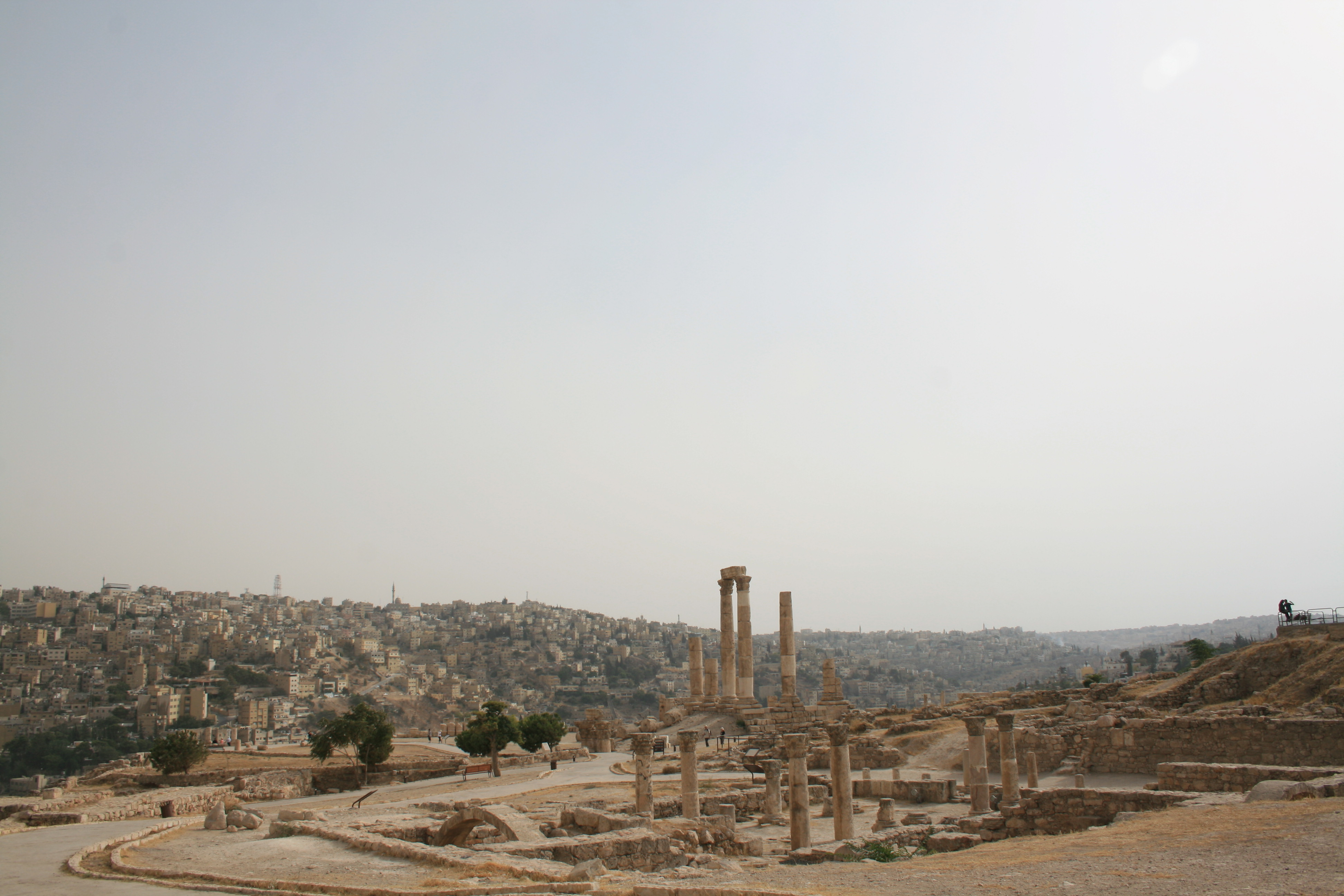 View of the Amman Citadel, Jordan